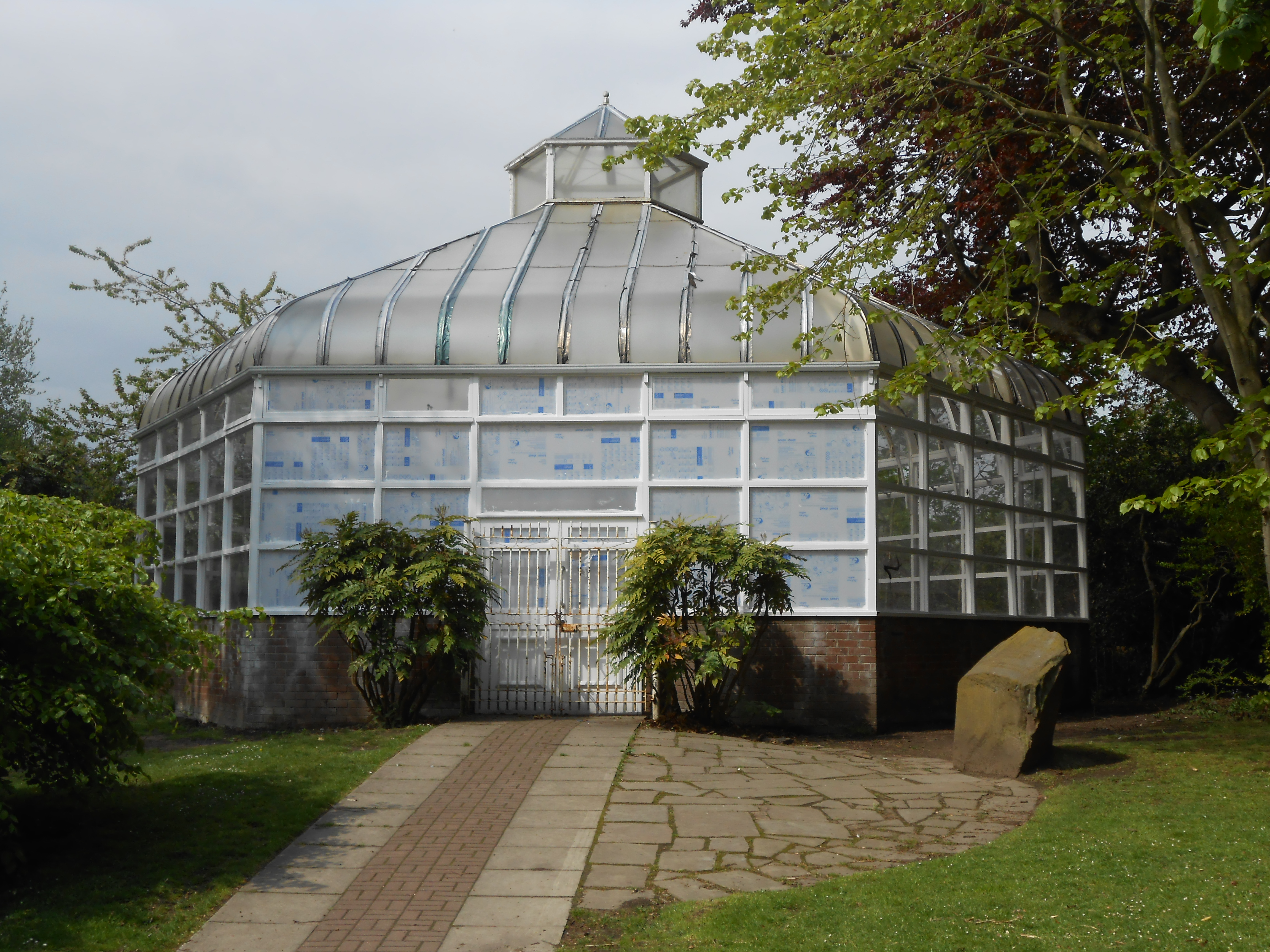 Photo taken at Calderstones Park, Liverpool, England.